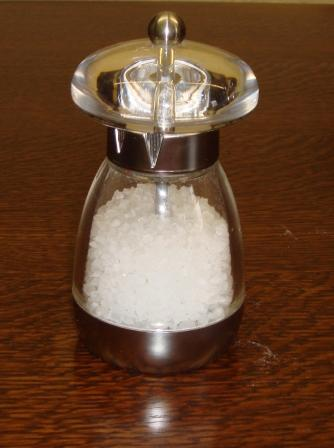 Salt grinder. Photo taken by me on 24 January 2007.